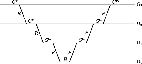 Illustration of a V-Multigrid cycle